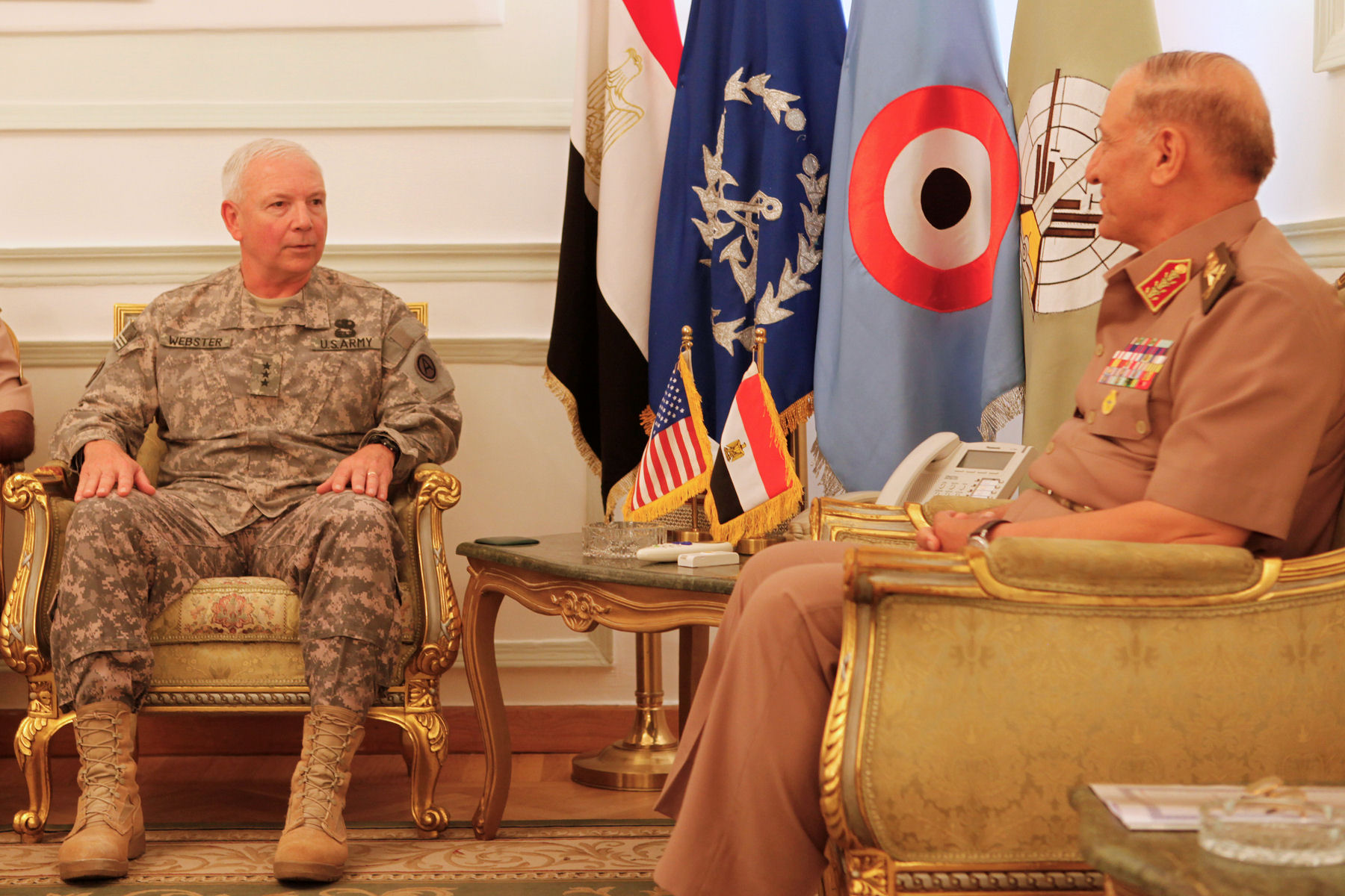 Lt. Gen. William G. Webster speaking with Lt. Gen. Sami Hafez Anon